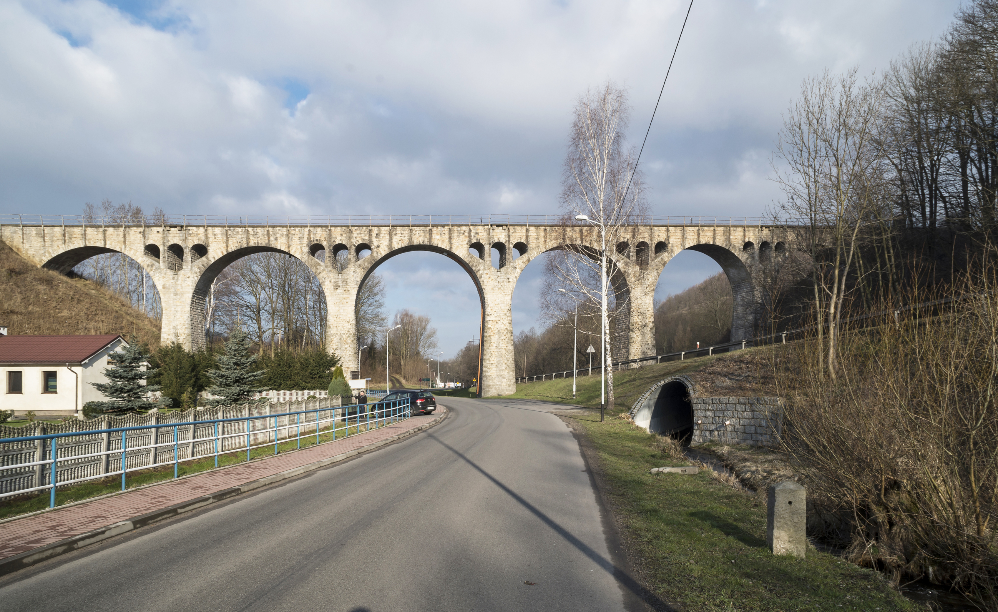 Overpass in Lewin Kłodzki